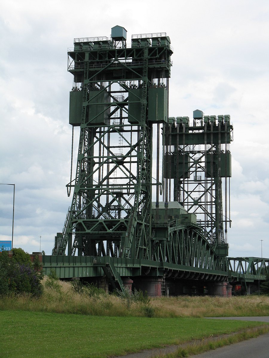 Tees Newport Bridge taken from the Stockton-on-Tees side.